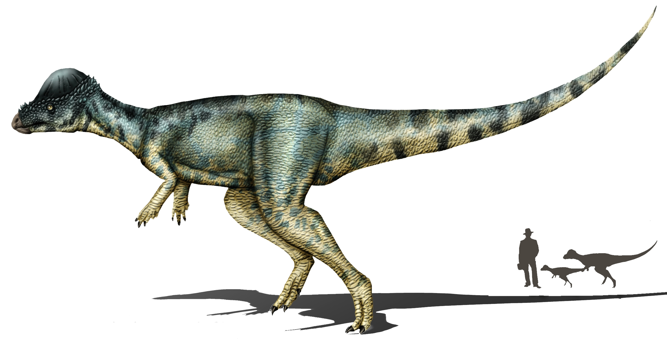 Alaskacephale